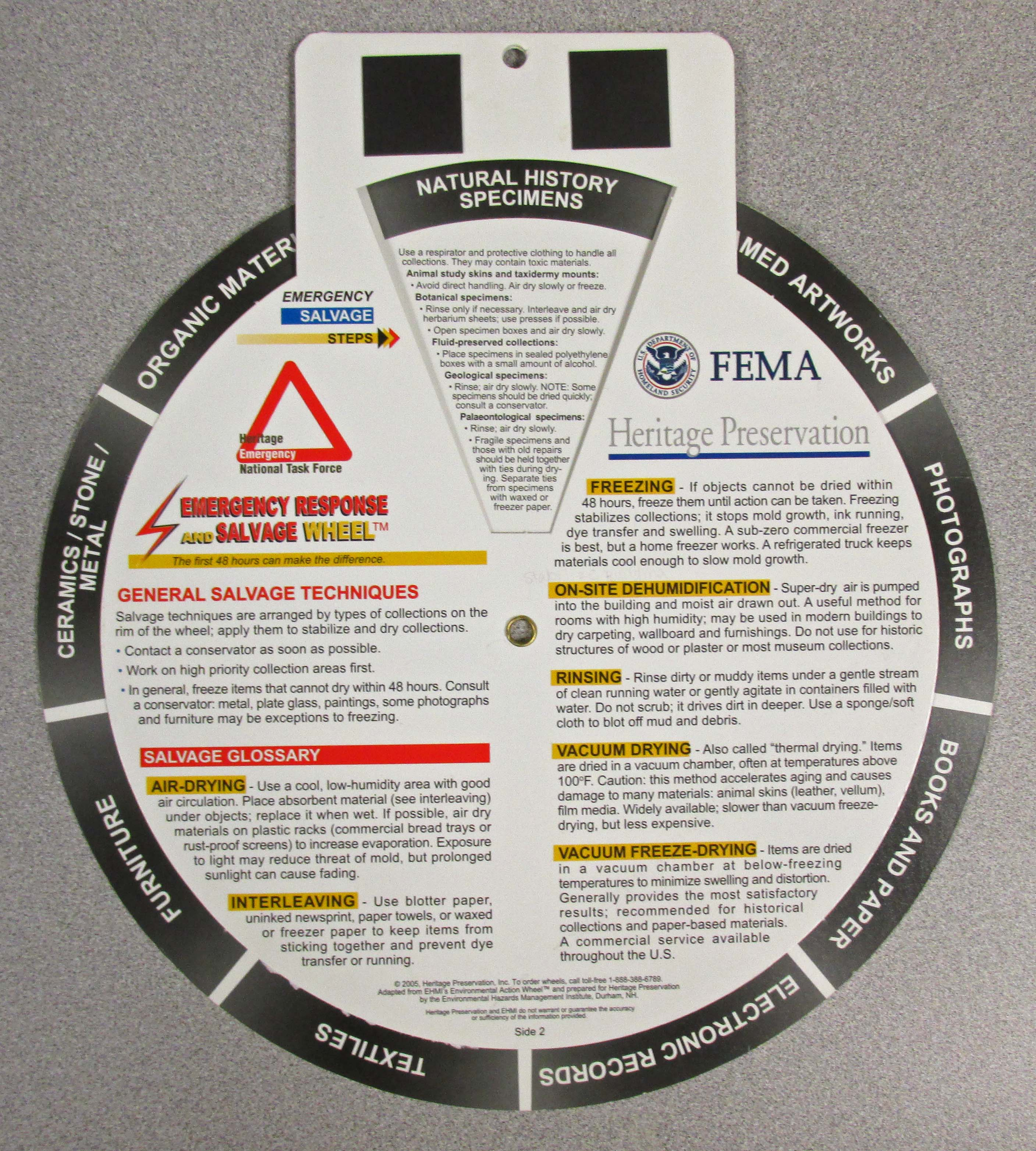 Heritage Emergency Task Force "Emergency Response and Salvage Wheel". Mirrors the salvage techniques in the 'ERS' APP with eleven categories of collections by material.